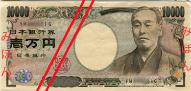 Series E 10000 Yen Bank of Japan note. Portrait: Fukuzawa Yukichi. First issued in 2004. 160mm x 76mm.